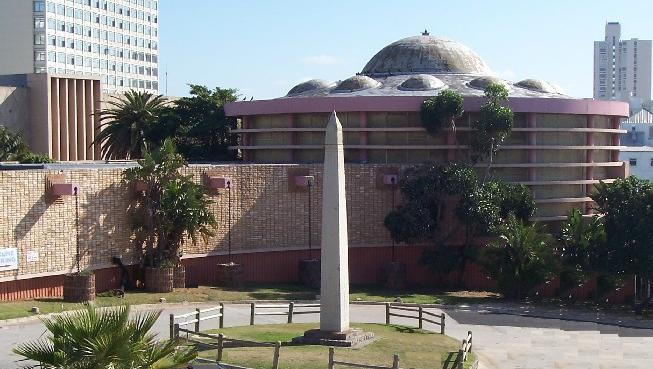 The Port Elizabeth Obelisk in front of the Bayworld museum complex, Port Elizabeth. Re-erected here after placed in storage since 1921 in May 1975.